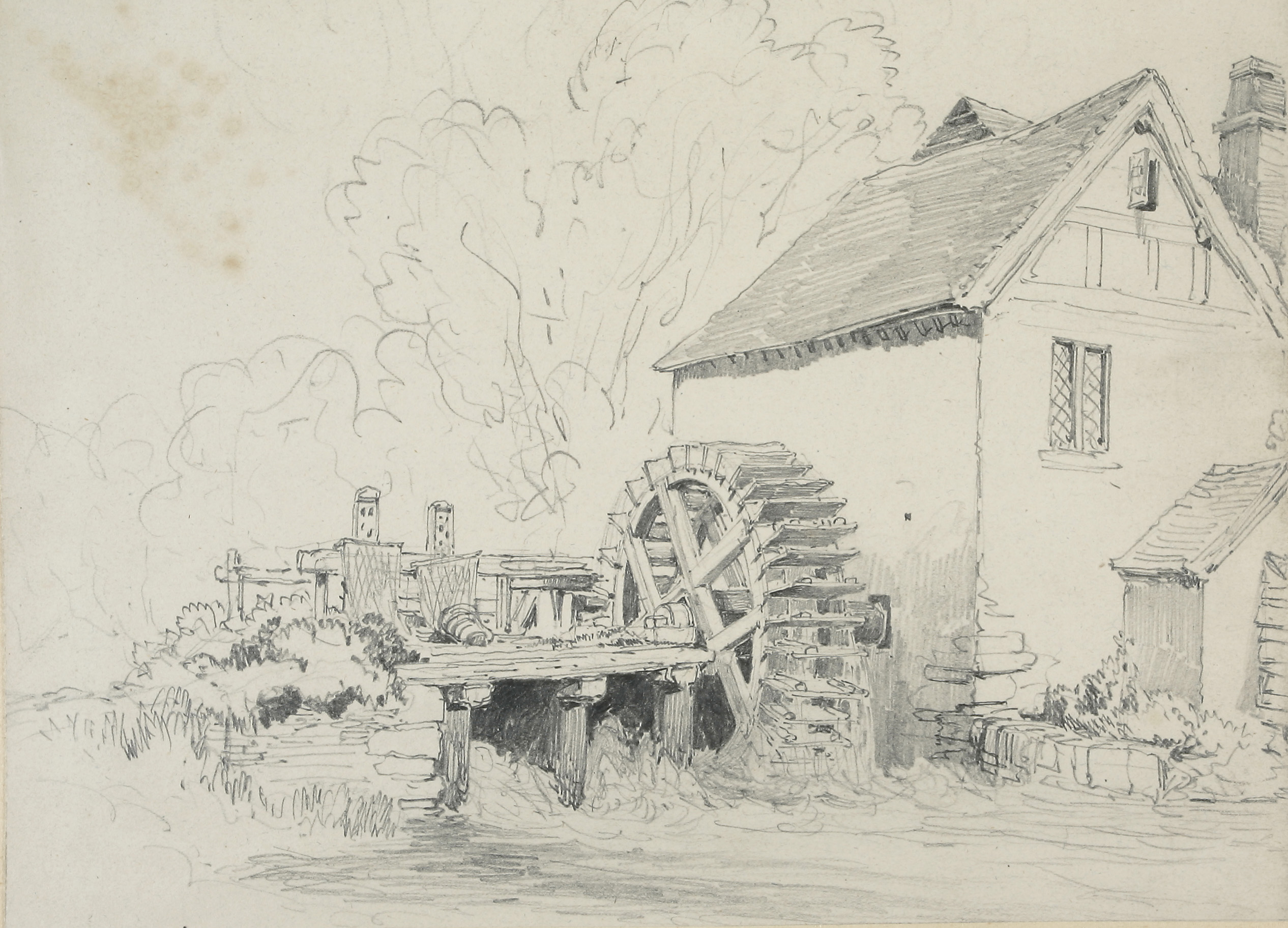 Mill with Waterwheel (View of a Water-Mill near Ridware). The RBSA say "A watercolour study made after this drawing is currently held in the collection of the Victoria and Albert Museum (V & A), entitled: View of a Water-Mill, Near Ridware. A watercolour study made after this drawing is currently held in the collection of the Victoria and Albert Museum (V & A), entitled: View of a Water-Mill, Near Ridware. The V & A further suggests it may be Pipe Ridware, near Lichfield, Hamstall Ridware or Mavesyn Ridware near Rugeley. However, neither Henry Harris Lines nor his brothers exhibited pieces related to any of these mills except for Mavesyn Ridware. It has therefore been attributed to Henry Harris and dated shortly before 1874, when he exhibited a painting entitled Mavesyn Ridware Mill at the Royal Birmingham Society of Artists" Pencil on paper; 263 x 189mm BIRSA:2007X.524 From the Lines family sketchbook, in the collection of the Royal Birmingham Society of Artists, Birmingham, England. See Rediscovering the Lines Family - Exhibition catalogue - 2009.